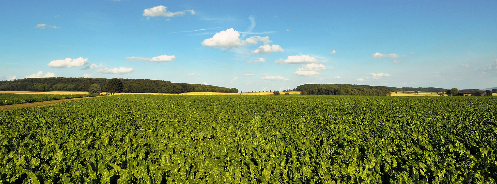 The hills Limberg, Abraham and Haarberg in the south of Hanover, Lower Saxony, Germany. You see sugar beet in the foreground.